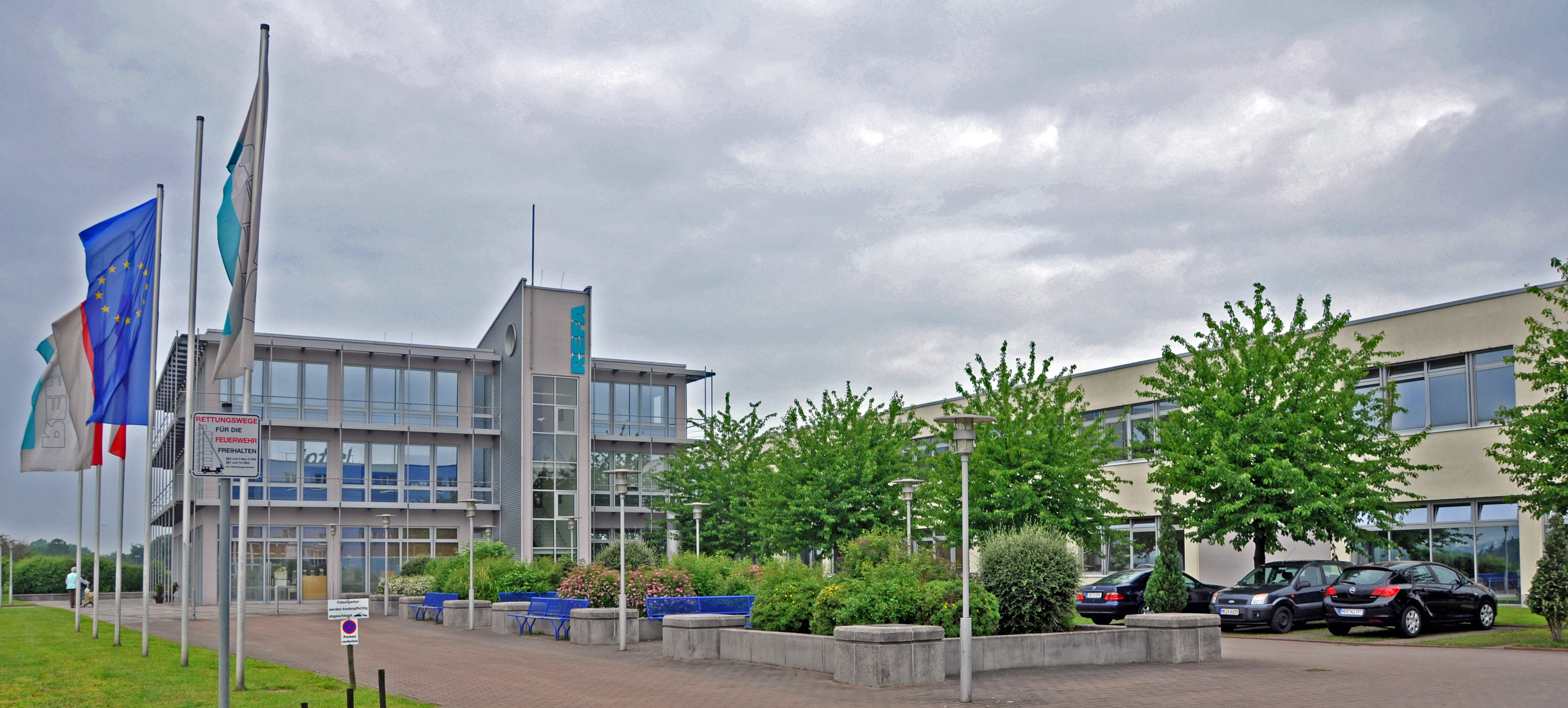 REFA building in Dortmund, Germany